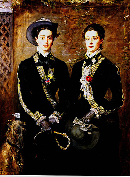 In the painting 'Twins,' of 1876 Millais produced a portrait of the identical daughters of a wealthy manufacturer. The markedly different characters of the confident and assertive Kate and the more nervous introverted Grace are illustrated wonderfully well.